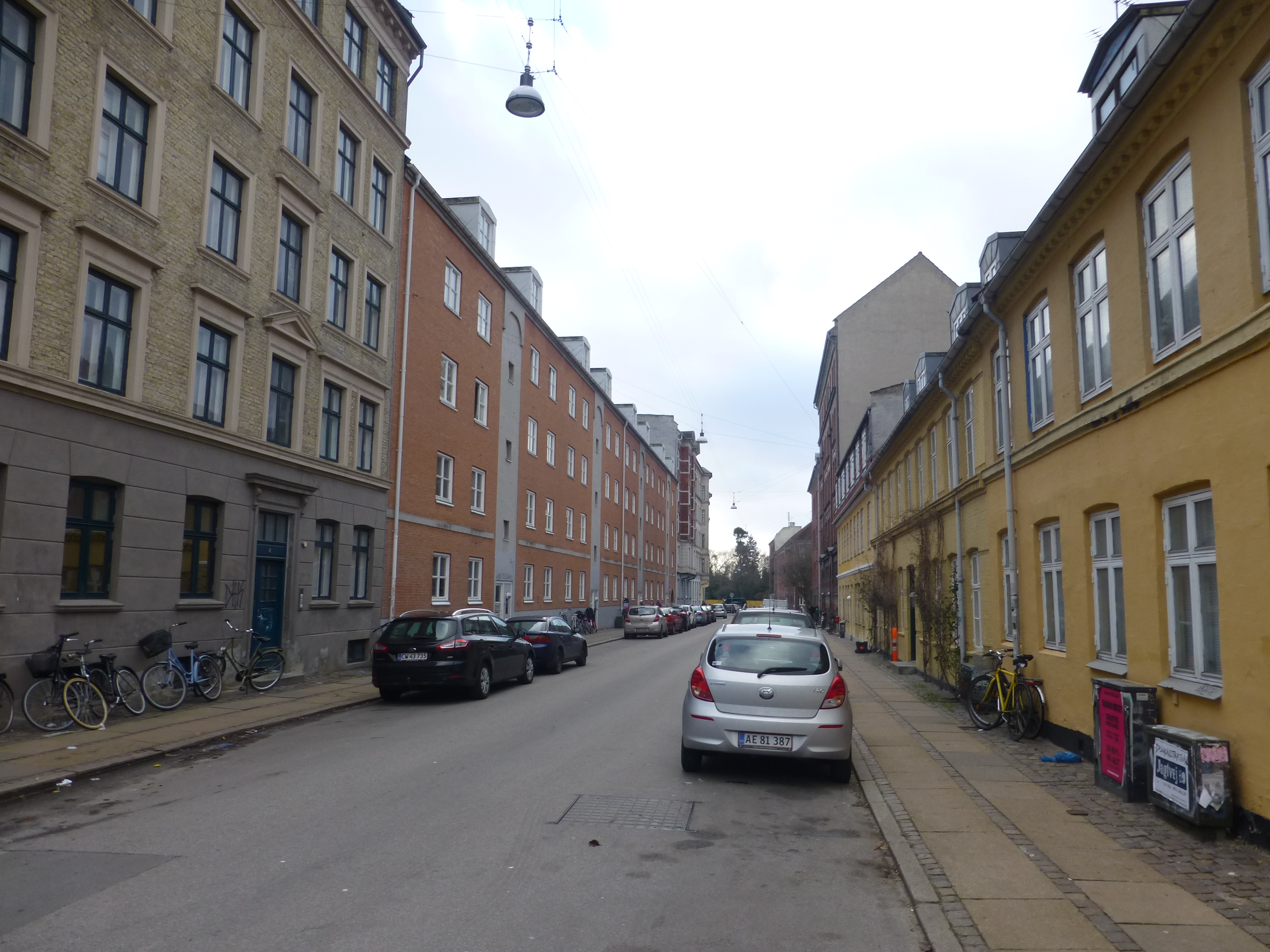 The street Meinungsgade in Nørrebro in Copenhagen.